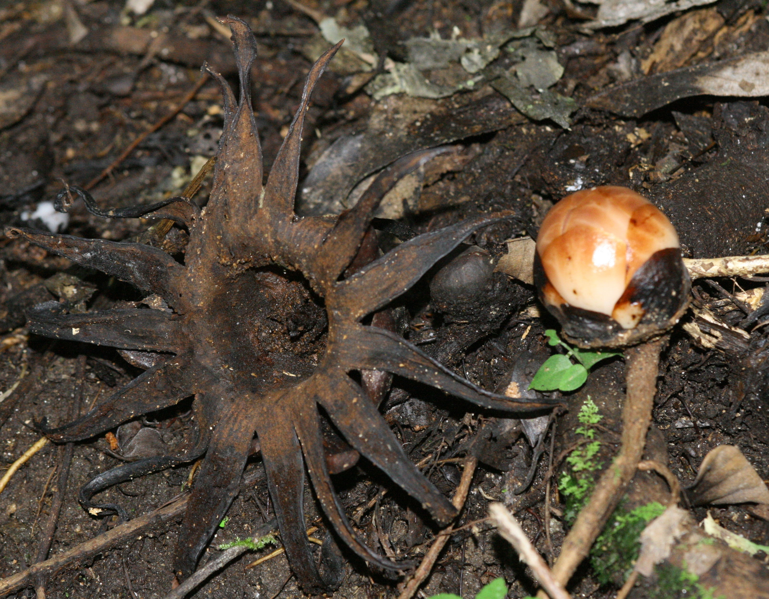 The bud and rotten flower of Rhizanthes sp., rainforest in Ketambe area, n. Sumatera